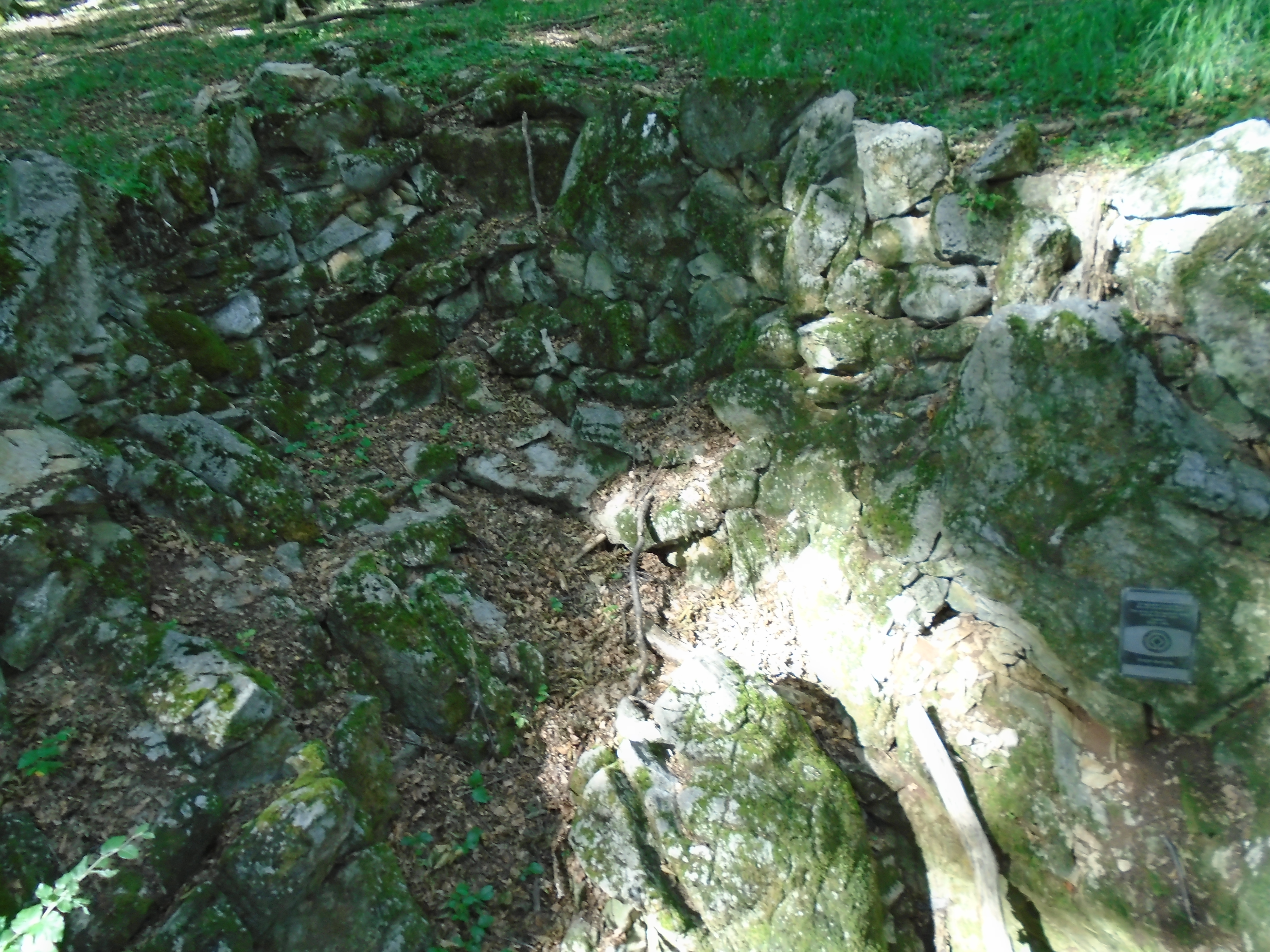 Entrance of Frank Cave.